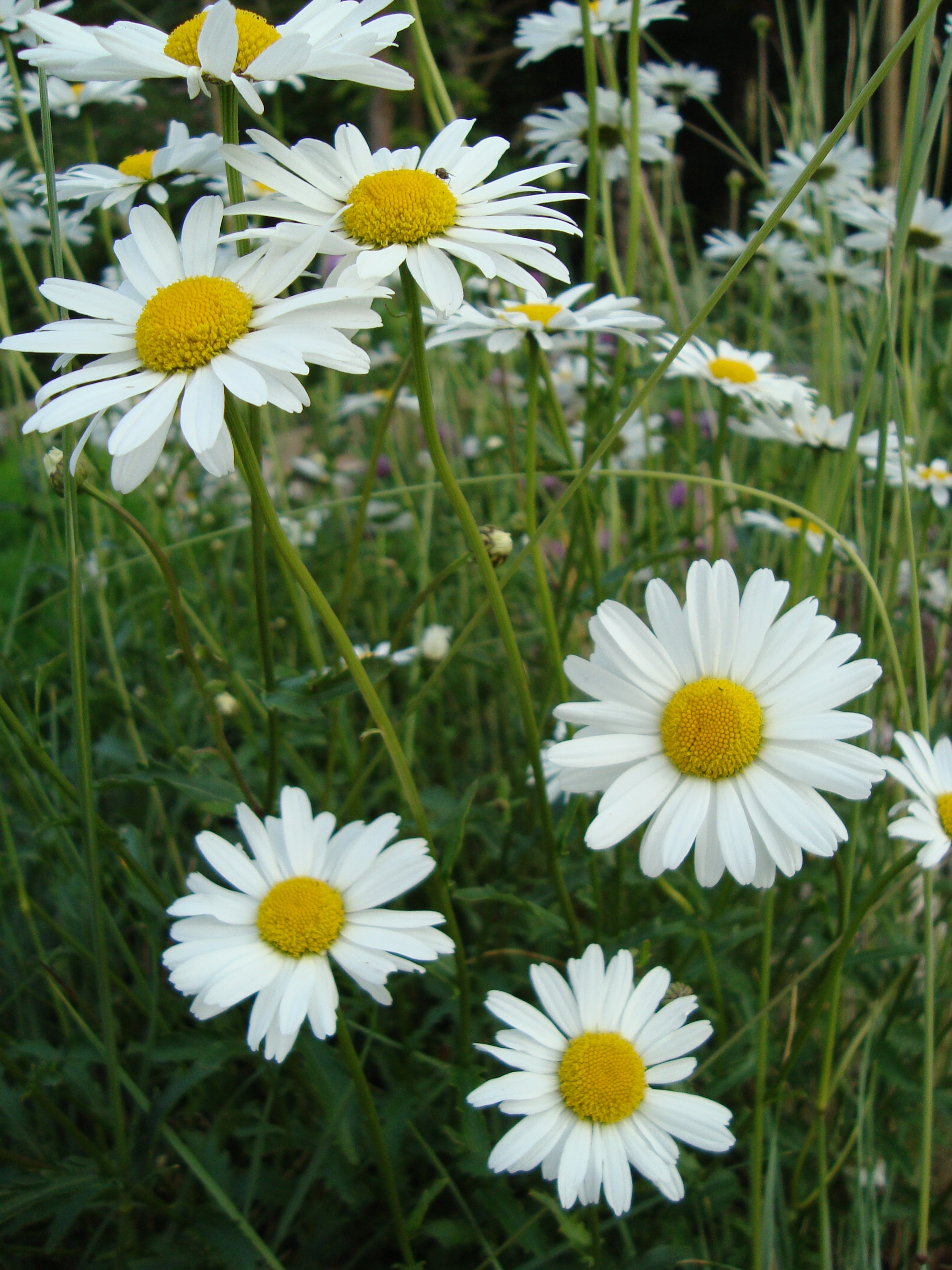 Leucanthemum vulgare